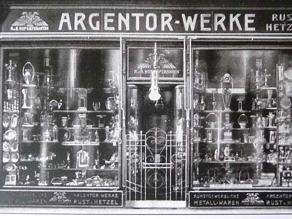 Old store of Argentor-Werke (Rust & Hetzel), Fabriken Kunstgewerblicher Metallwaren in Vienna.